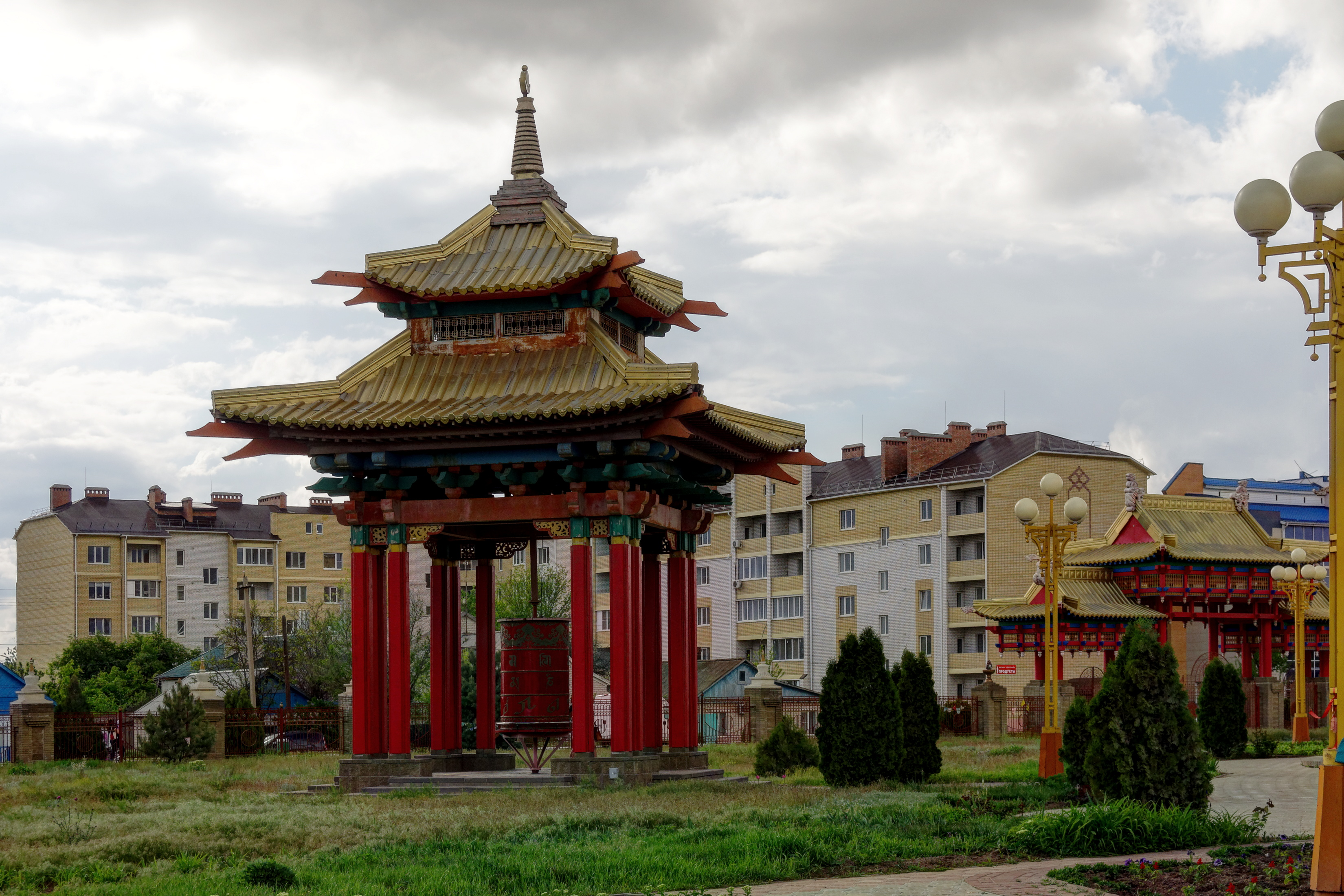 Elista